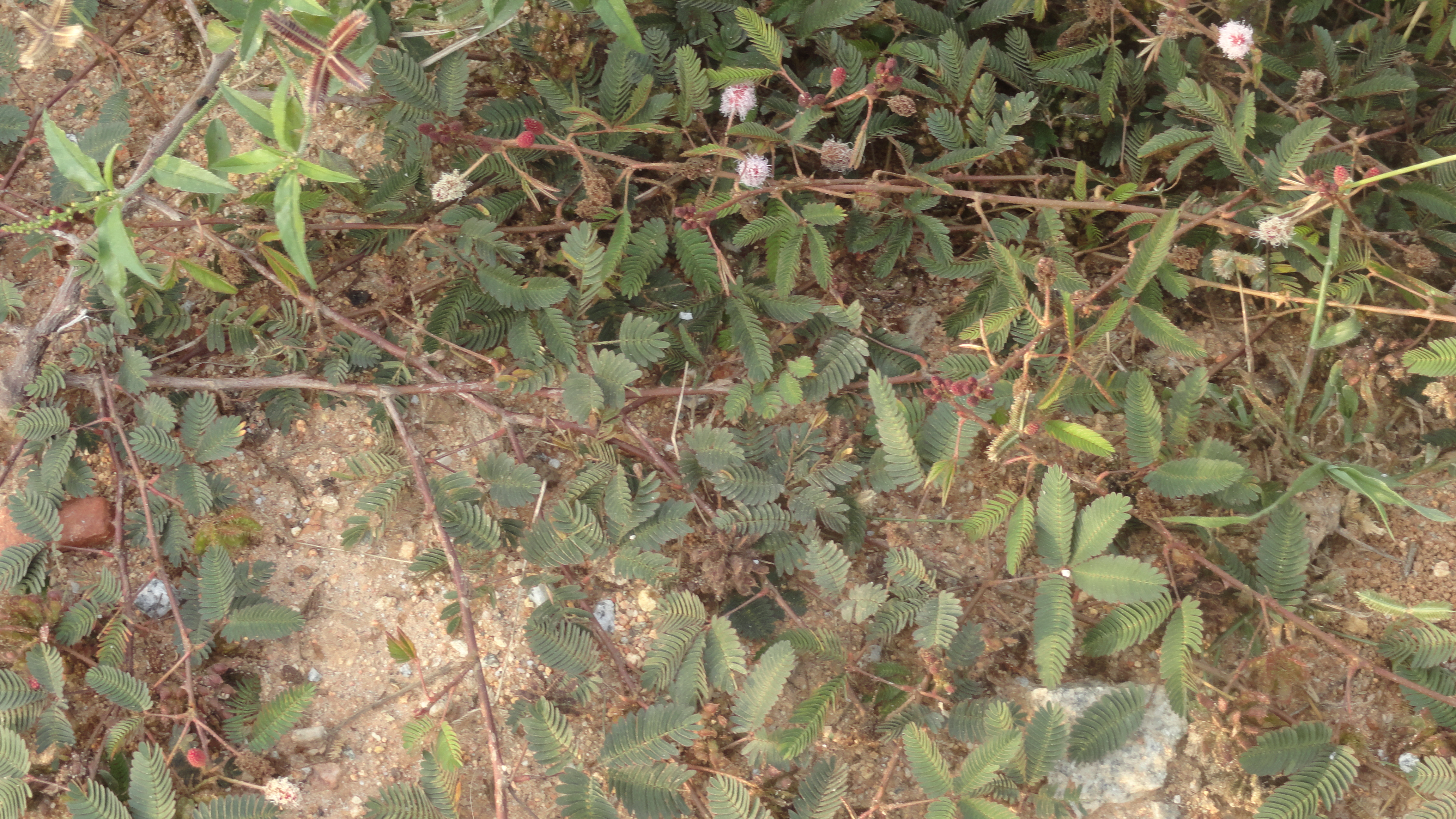 Touch me not. a plant. near kalluru of chittoor dist